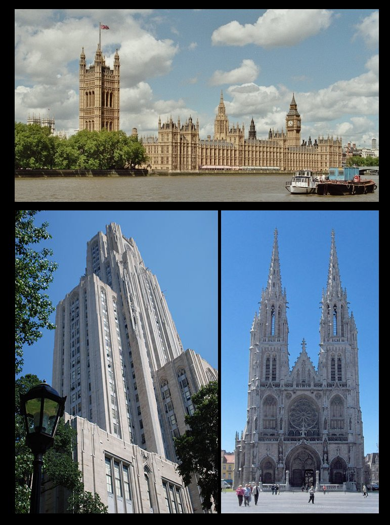 Gothic Revival architecture